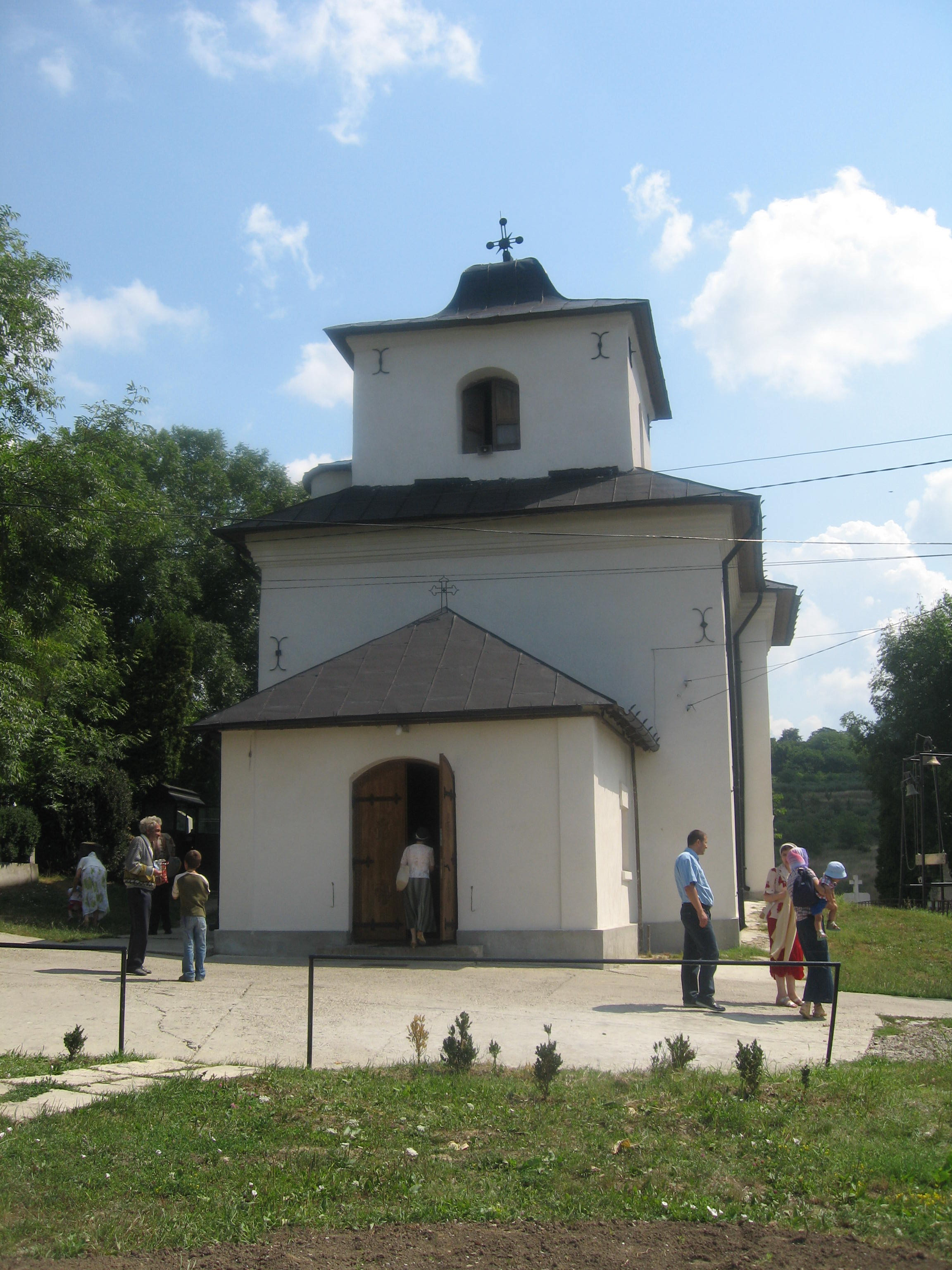 Mănăstirea Podgoria Copou